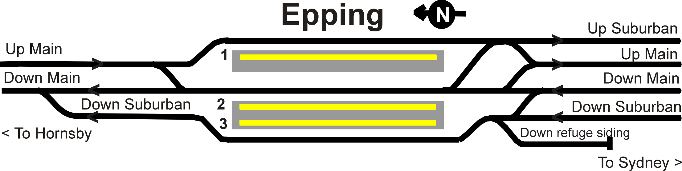 Track layout at Epping railway station, Sydney prior to the construction of the Epping to Chatswood railway line.